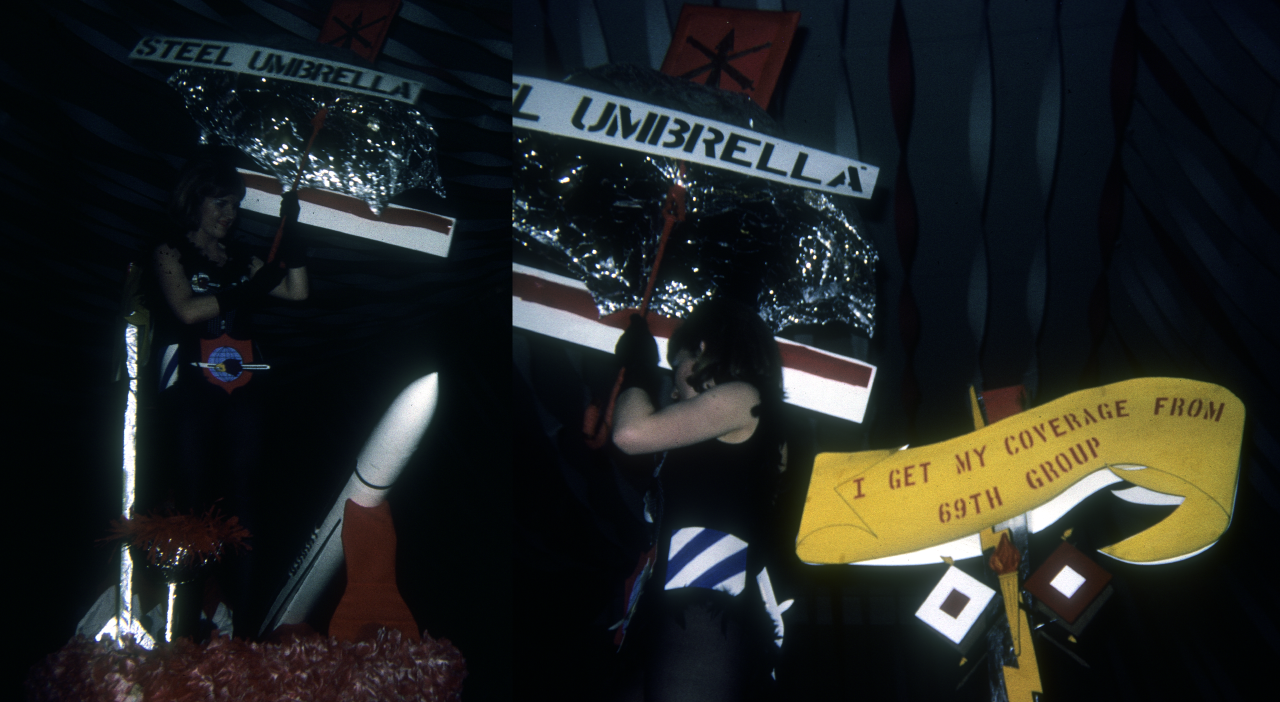 During a New Year's Eve celebration at the Leighton Barracks Officers Club, Würzburg, Germany, a float demonstrates the Steel Umbrella provided by the 69th Artillery Group to protect the 3rd Infantry Division.